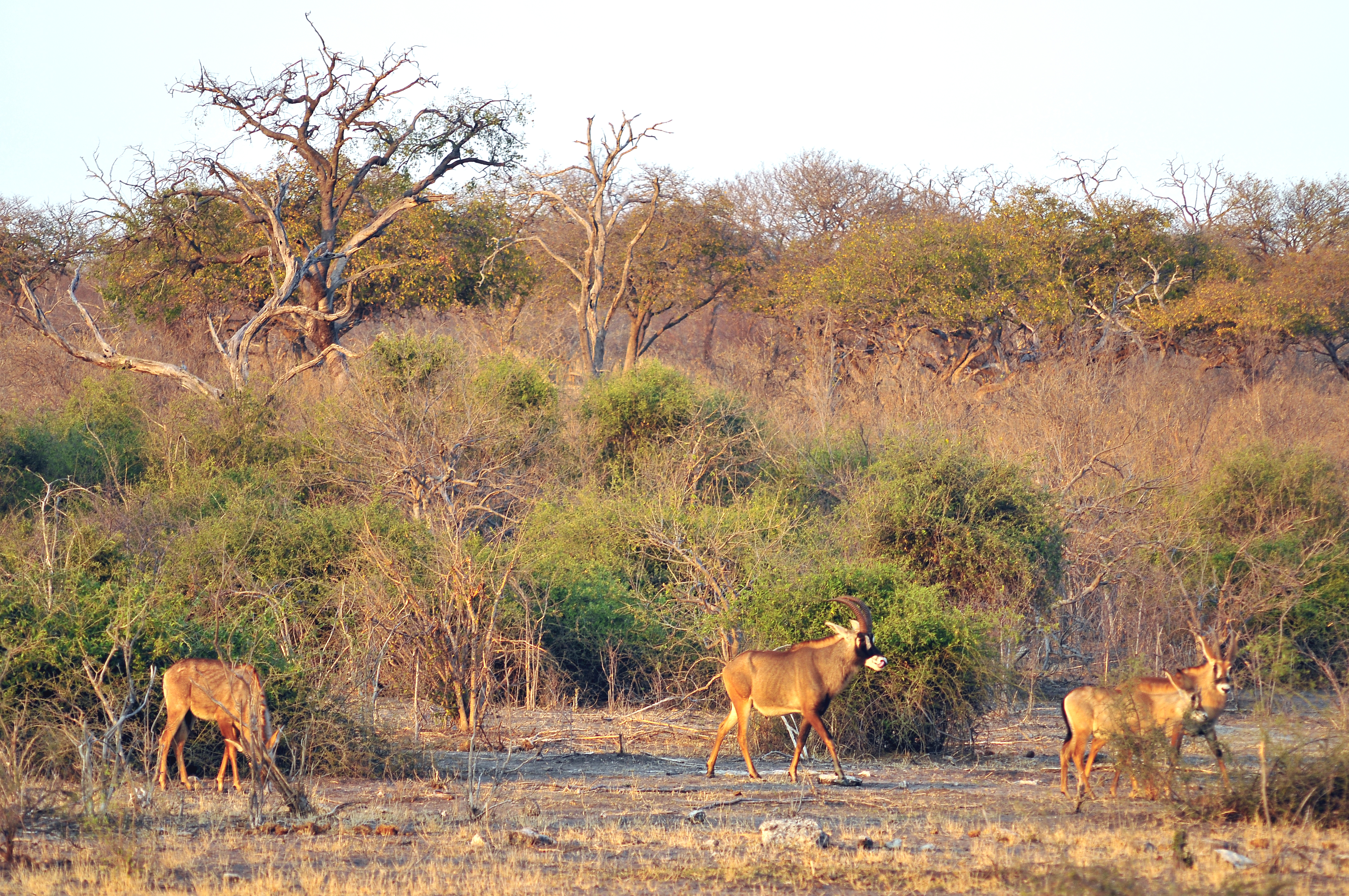 Roan antelopes (Hippotragus equinus). Chobe National Park, Botswana